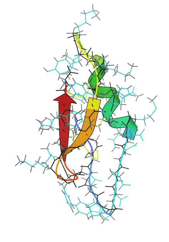 Plectasin structure